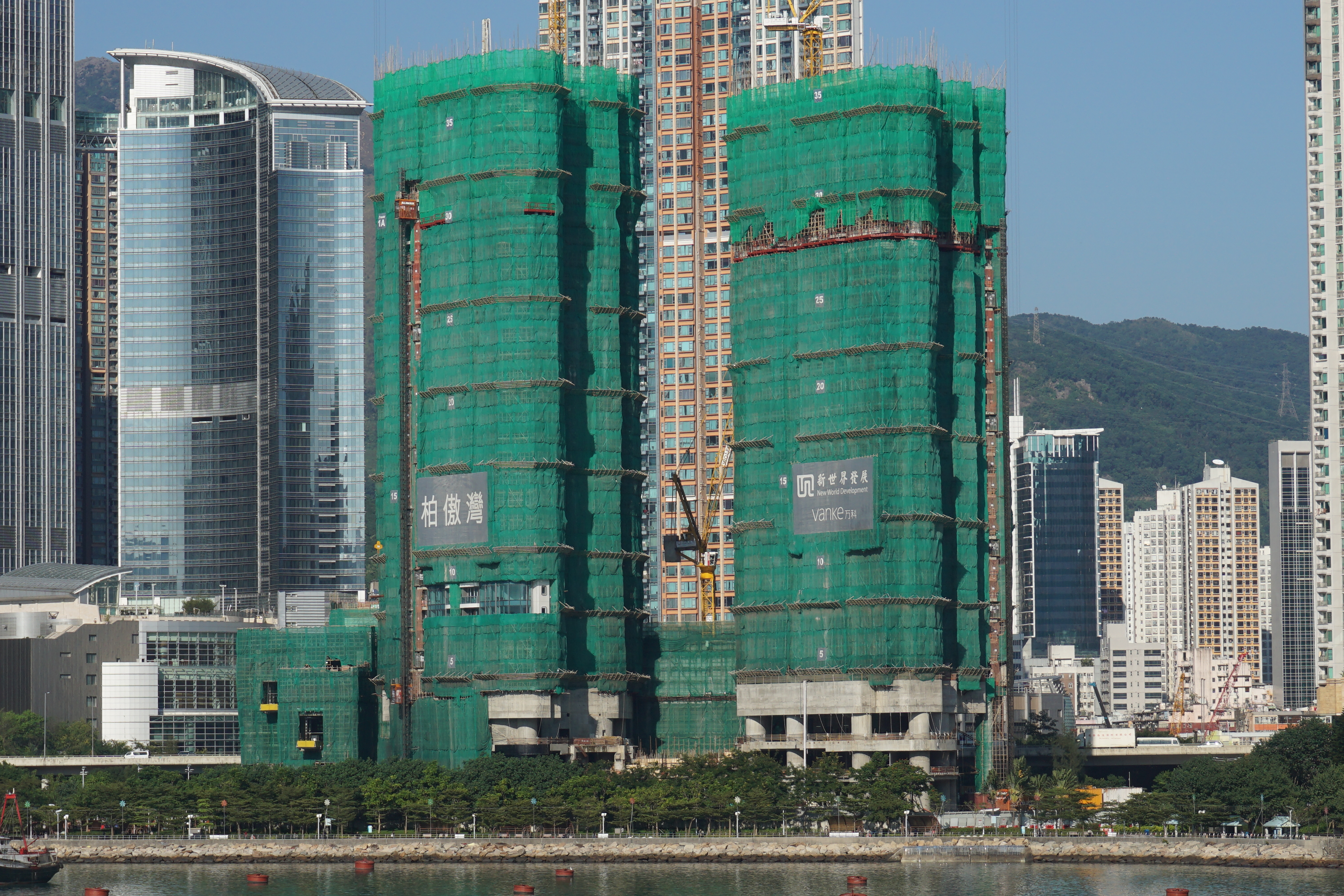 The Pavilia Bay in Tsuen Wan, Hong Kong.